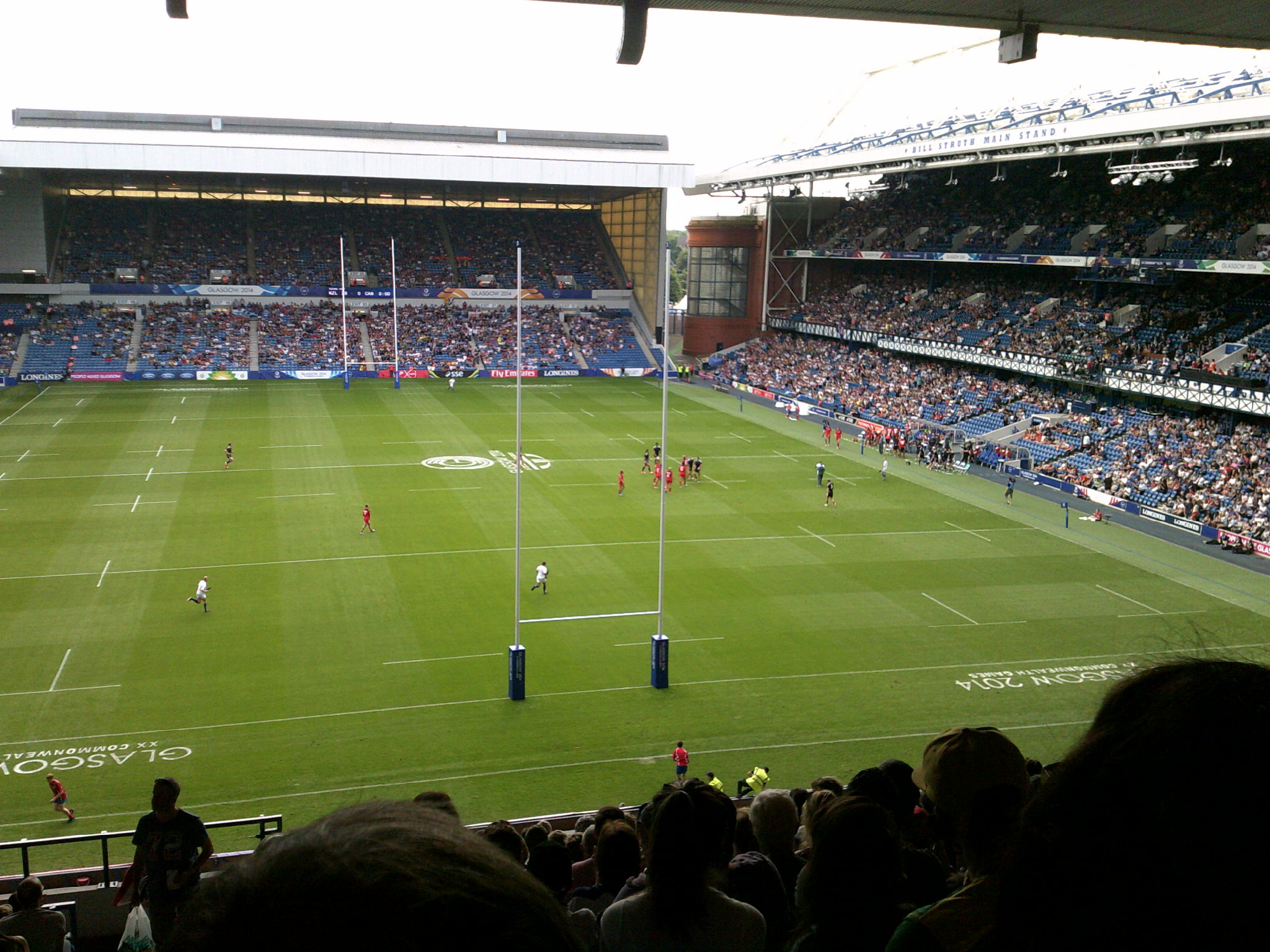 Canada rugby sevens team playing NZ at the 2014 Commonwealth Games